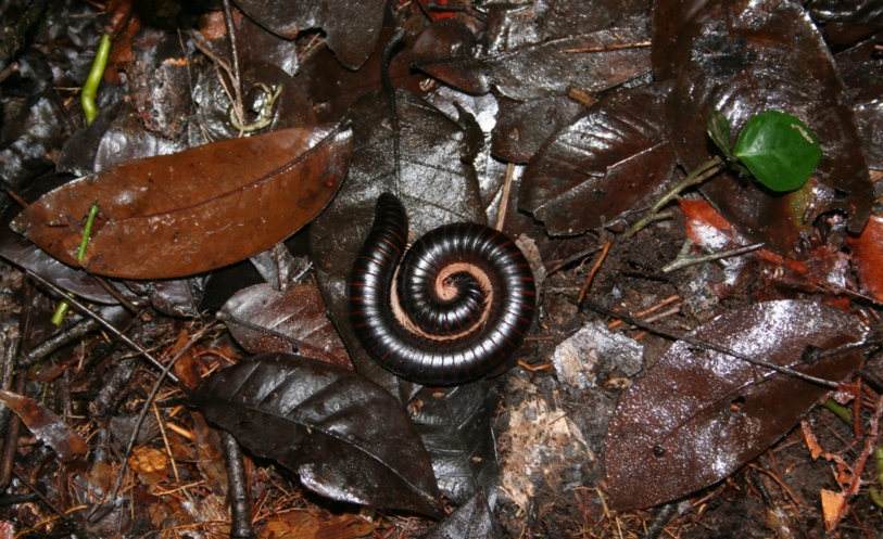 Shongololo (millipede) on tropical rain forest floor, Cogo District, Rio Muni, Equatorial Guinea, Africa. Taken by self 12 December 2005.